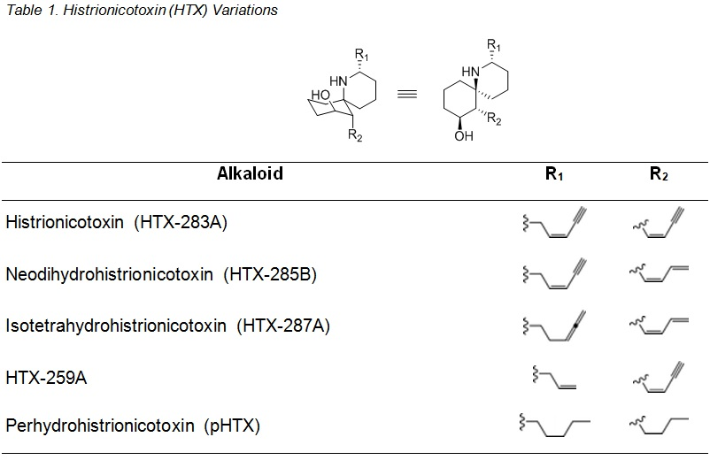 A table describing a few variants of the arrow poison, histrionicotoxin.